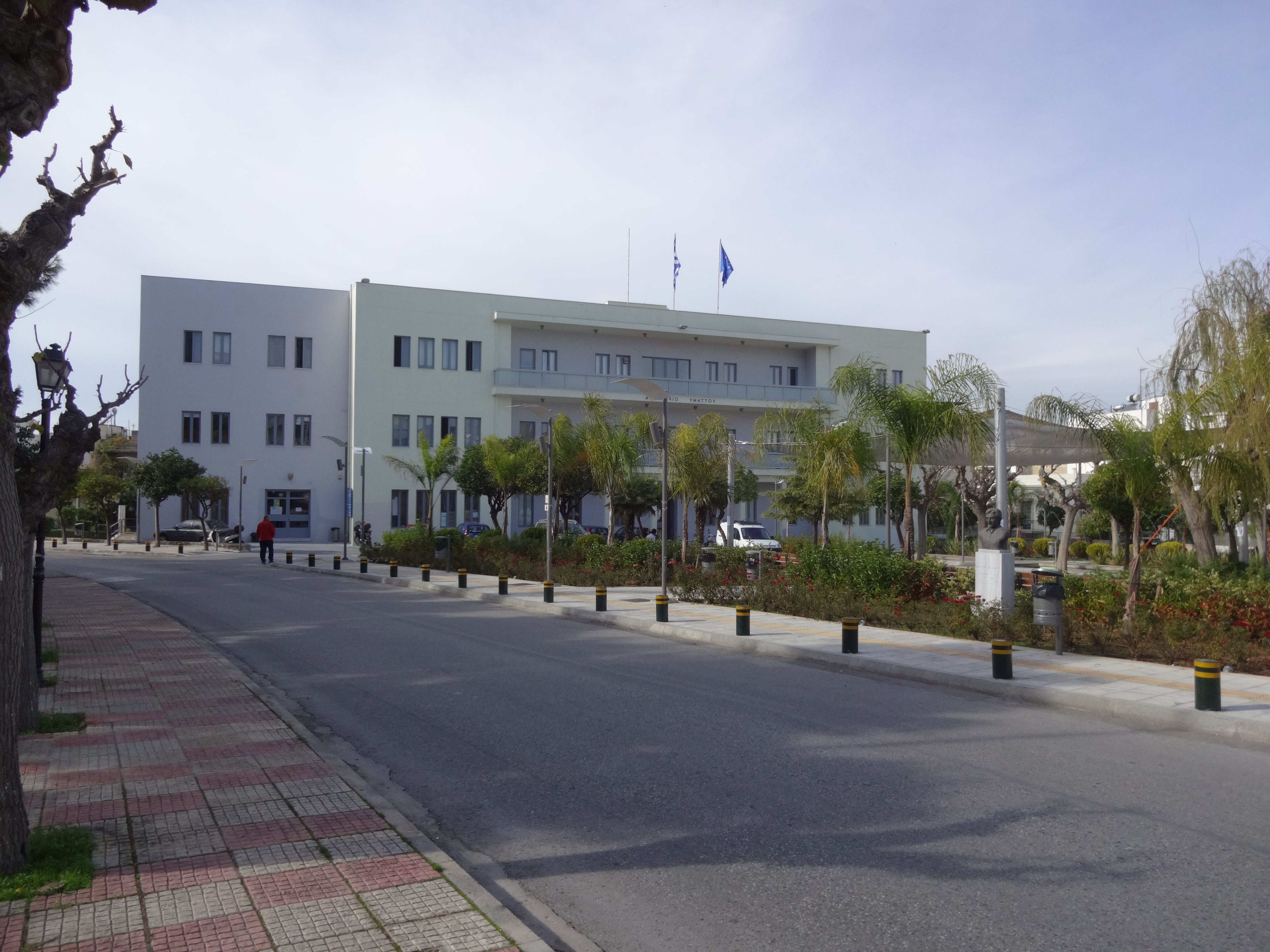 Old municipality of Ymittos and bust of Mayor Andreas Lendakis, Athens, Greece